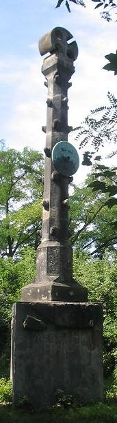 Monument in Schildhorn, commemorating to a legend of the slavic Fürst (prince, ruler) Jacza de Copnic (Jaxa von Köpenick). The monument was created in 1845 by the sculptor Friedrich August Stüler acted on a suggestion by Frederick William IV of Prussia. Schildhorn (german for: shieldhorn) is a headland in the river Havel, situated in the protected area Grunewald in the homonymous quarter Grunewald of Berlins borough Charlottenburg-Wilmersdorf, Germany.